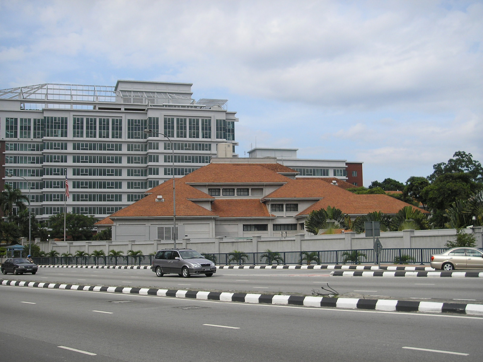 Embassy of the United States of America in Kuala Lumpur, at Jalan Tun Razak.